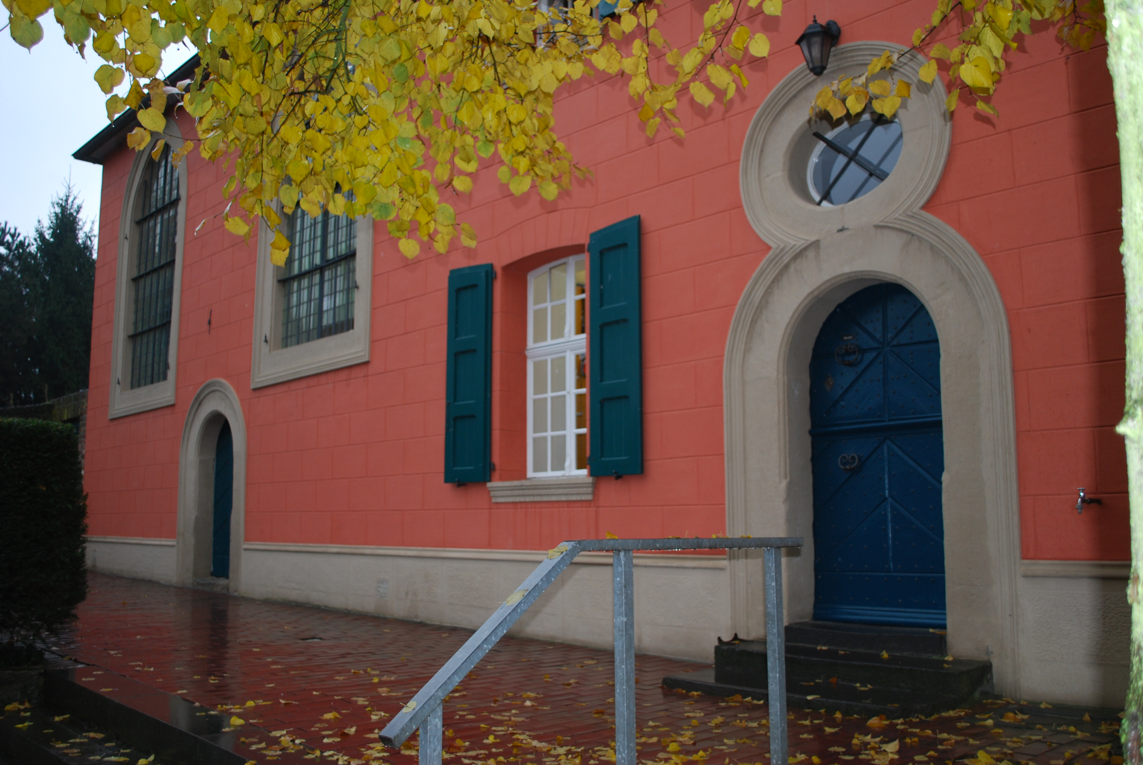 Prot. Church Kirchherten